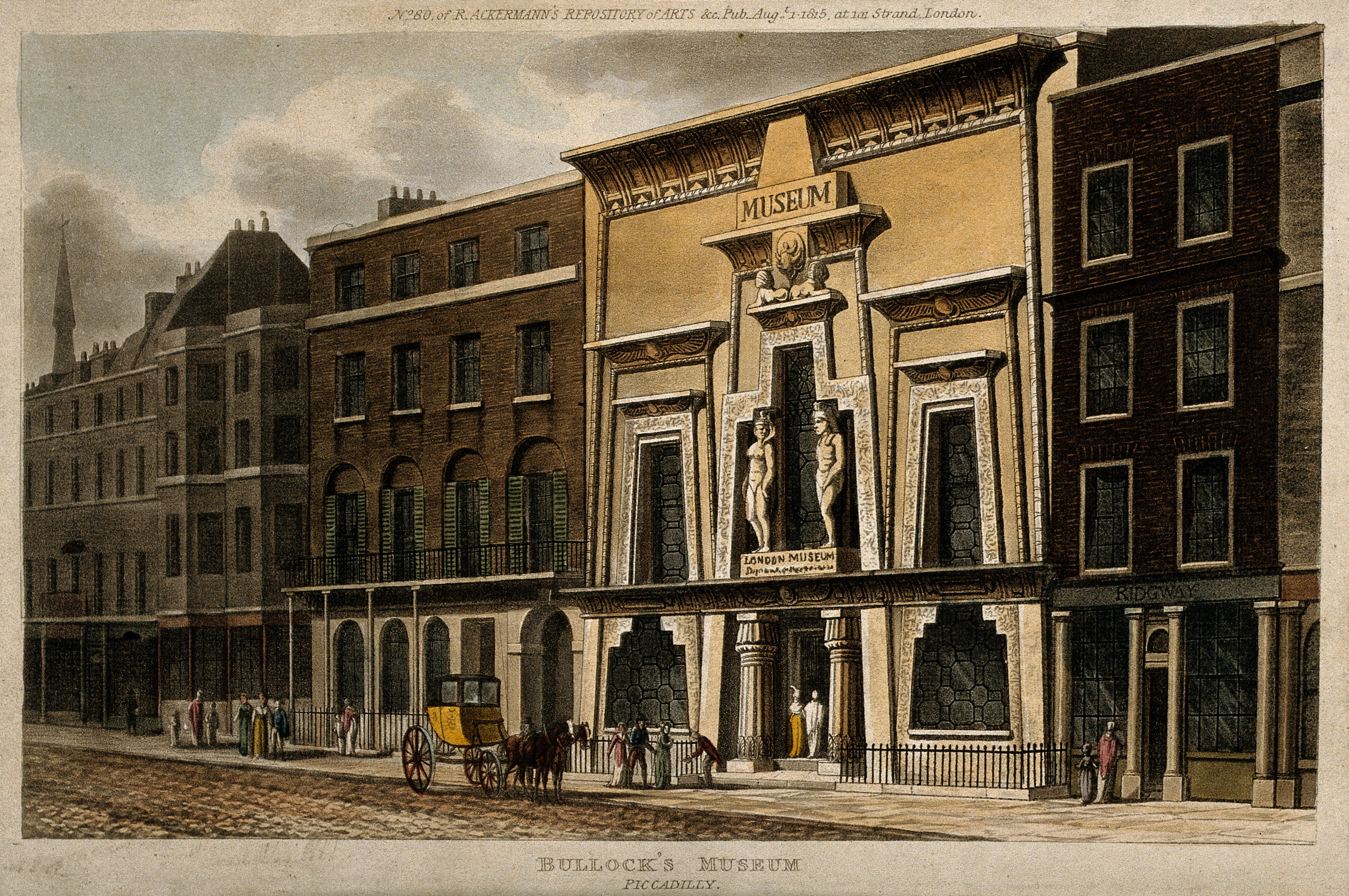 Bullock's Museum, (Egyptian Hall or London Museum), Piccadilly. Coloured aquatint, attributed to T. H. Shepherd, 1815. Iconographic Collections Keywords: ic; london museum; Sebastian Gahagan; Thomas Hosmer Shepherd; Peter Frederick Robinson